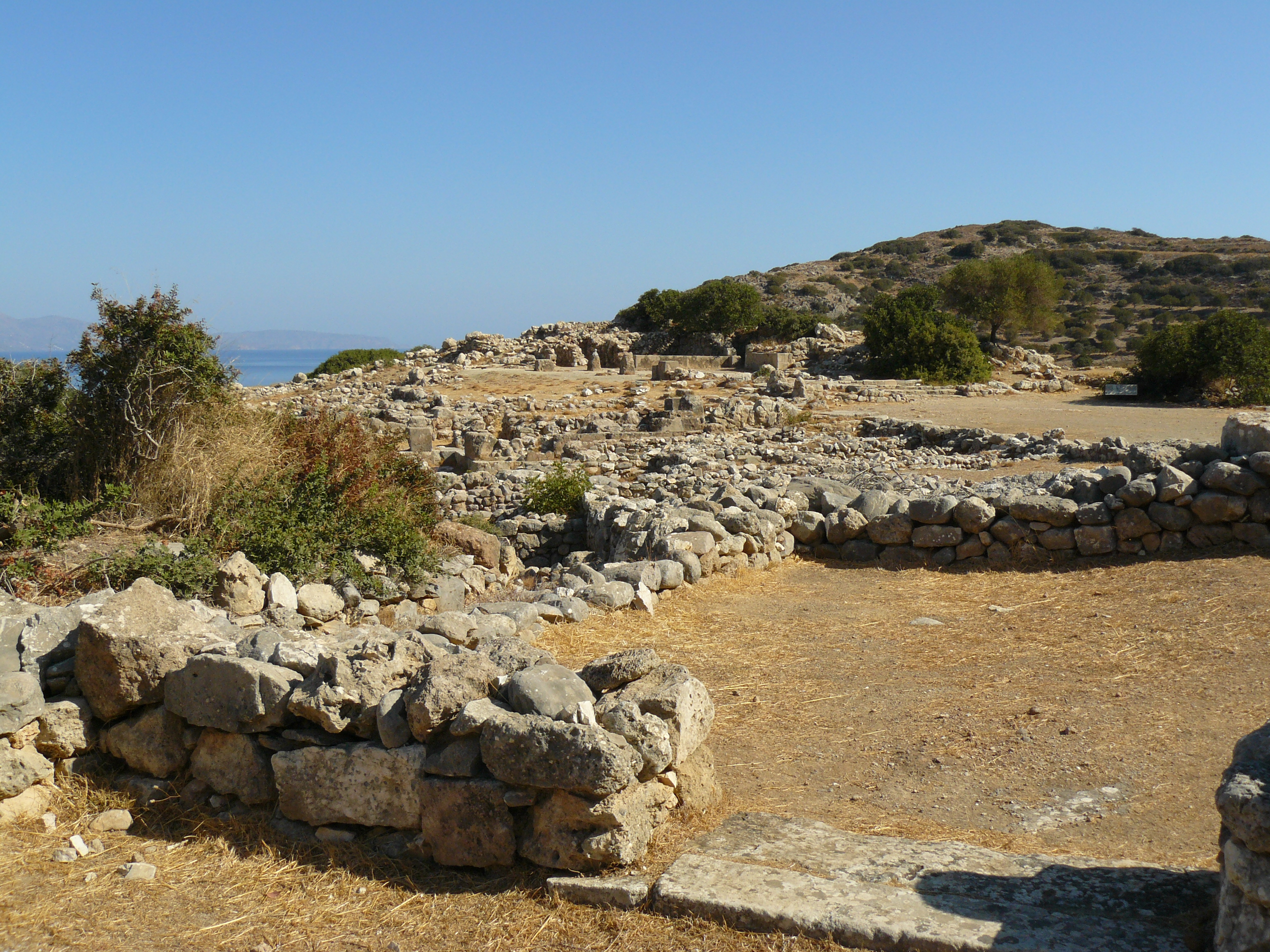 The Palace of Gournia, in the Background Sphoungaras hill.